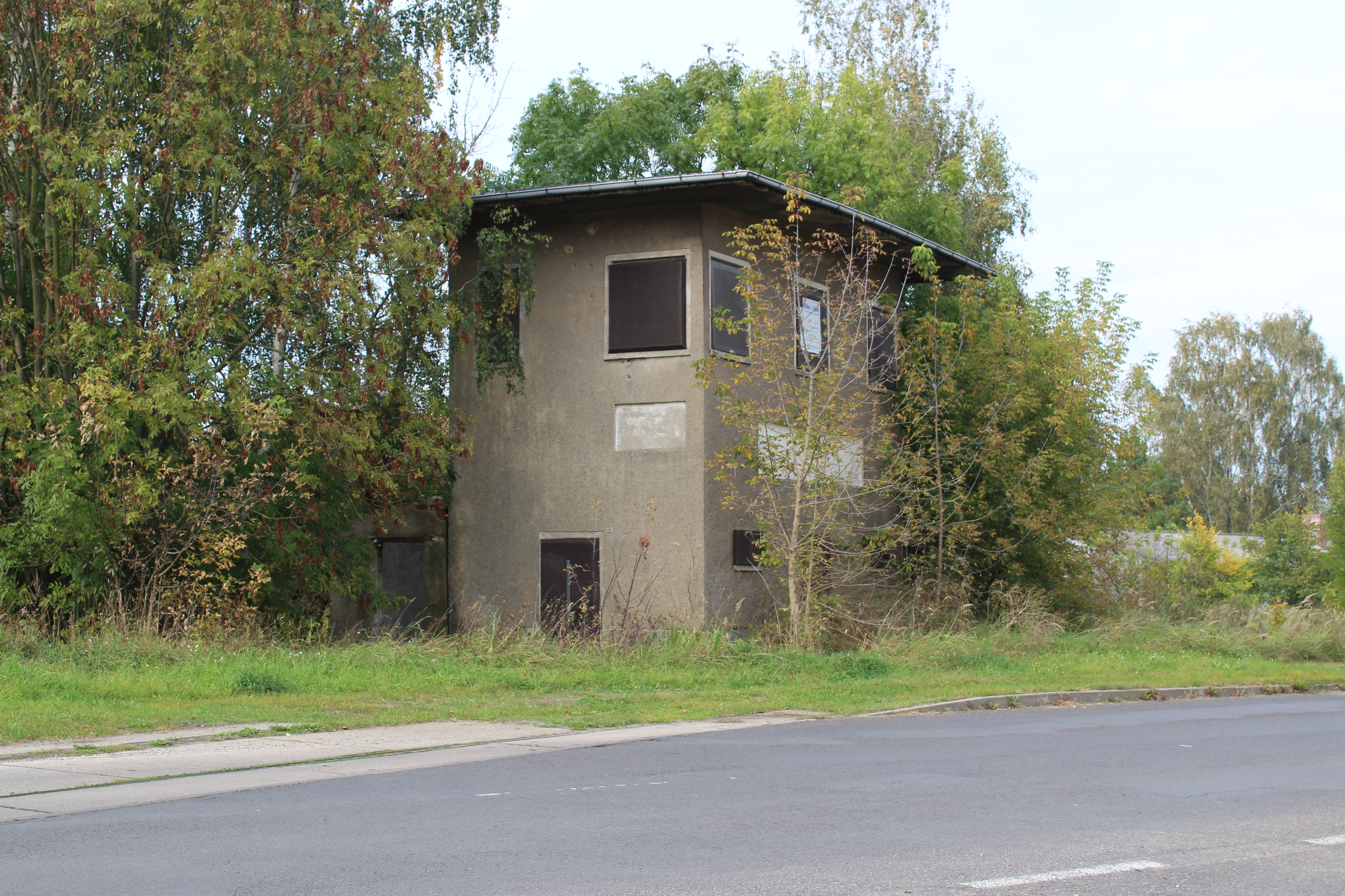 train station Küstrin-Kietz, former signal box Kst